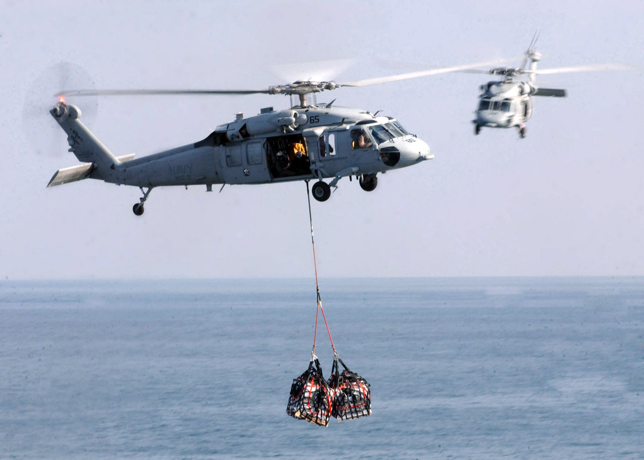 051217-N-7217H-047 Indian Ocean (Dec. 17, 2005) - MH-60S Seahawk helicopters deliver supplies to the amphibious assault ship USS Tarawa (LHA 1), while conducting vertical replenishment operations with the Military Sealift Command (MSC) underway replenishment oiler USNS Patuxent (T-AO 201).